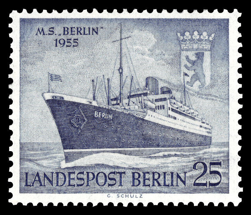 Ship naming and launching after reconstruction 1955, passenger ship Berlin (former M/S Gripsholm) Graphics by Schulz Ausgabepreis: 25 Pfennig First Day of Issue / Erstausgabetag: 12. März 1955 Michel-Katalog-Nr: 127 (Berlin)